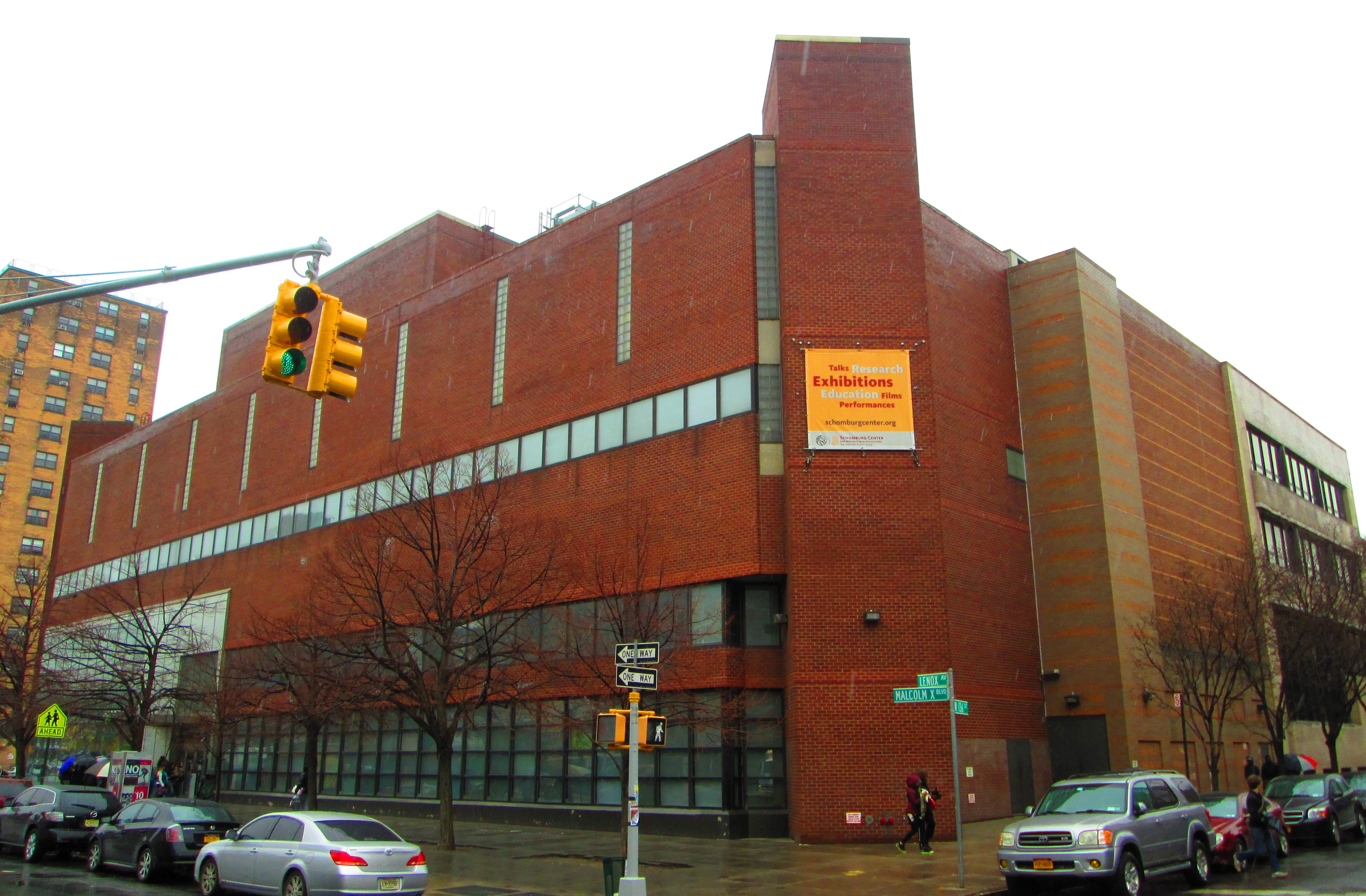 The Schomburg Center for Research in Black Culture's building at 515 Malcolm X. Boulevard (Lenox Avenue) was constructed between 1969 and 1980, and opened to the public in 1978. It was designed by Bond Ryder Associates. A link to the Center's original building, the former 135th Street Branch, was built in 1991, designed by Davis Brody Bond. The building was renovated in 2007. (Source: 'AIA Guide to NYC (5th ed.))